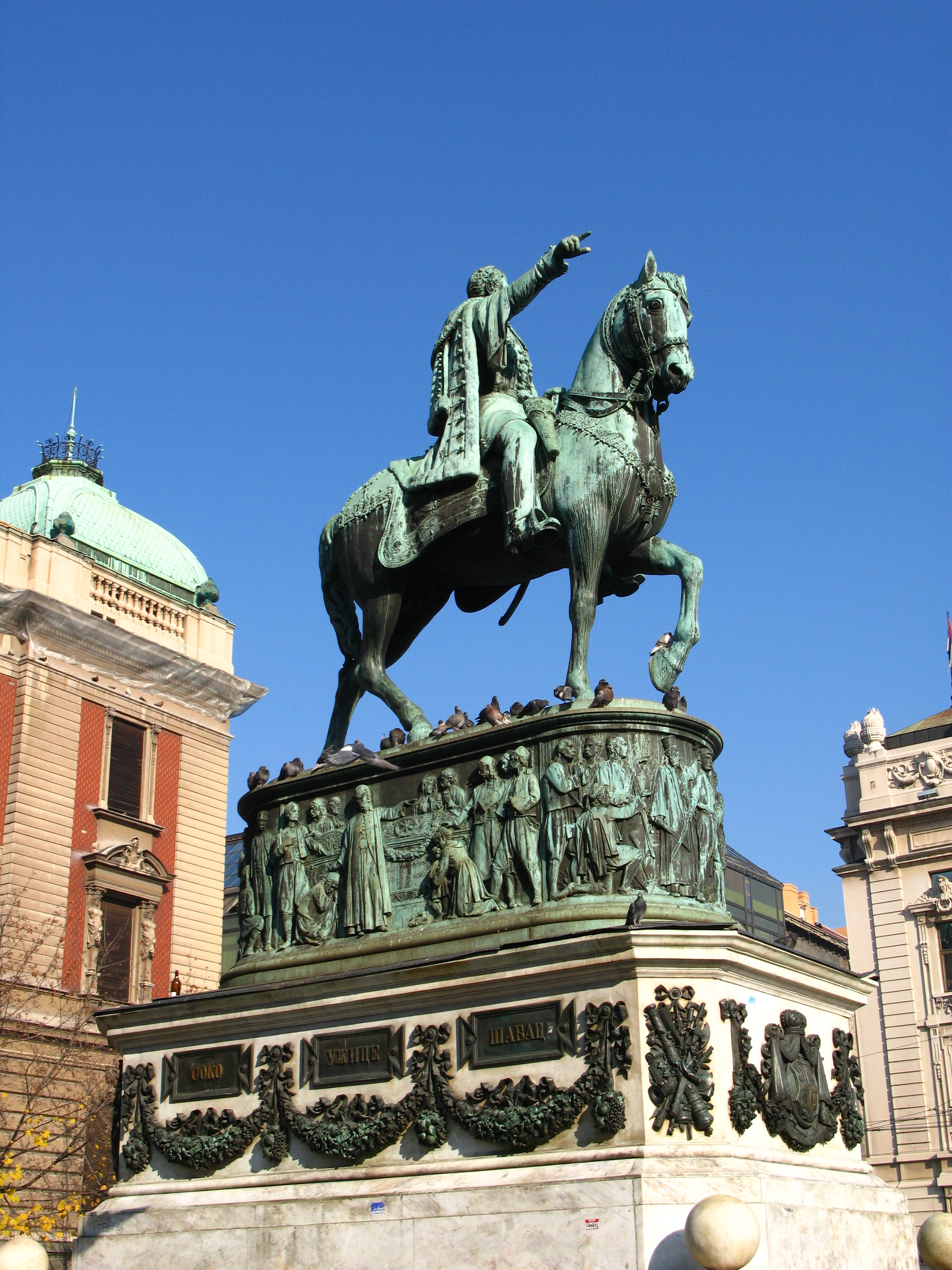 Monument to Mihailo Obrenović III, Prince of Serbia. Knez Mihaiolova street, Belgrade, Serbia.